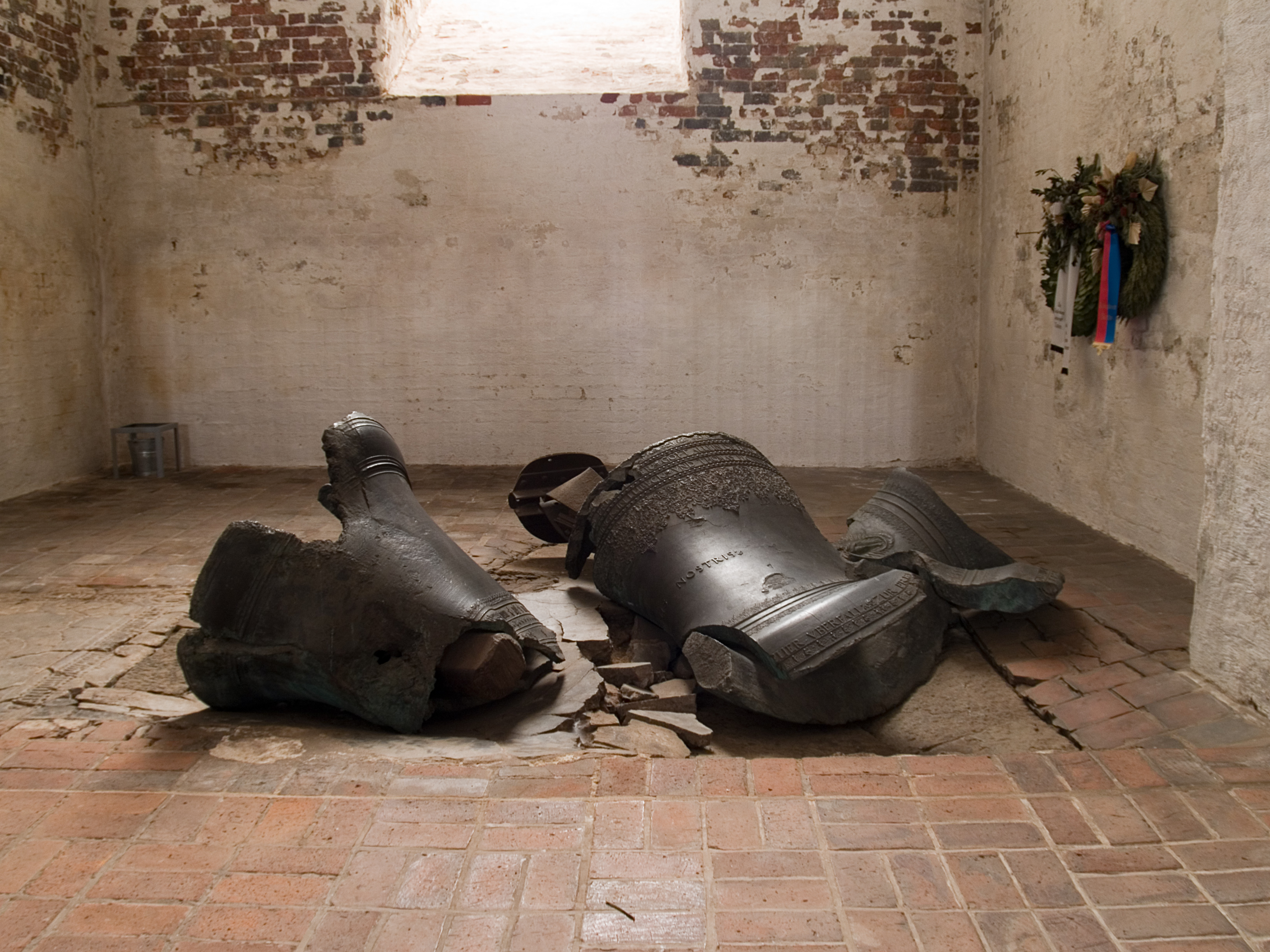 Church of St. Mary in Luebeck, the bells, partly melted during the fire in world war two